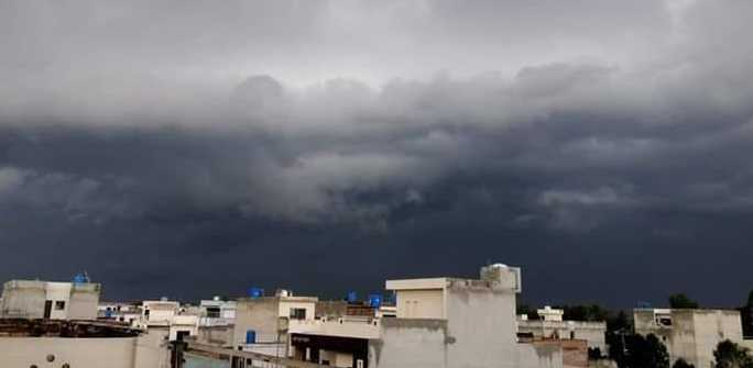 Thunderclouds approaching Faisalabad city